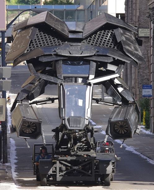 Image of the Batwing filming in Pittsburgh in the The Dark Knight Rises.